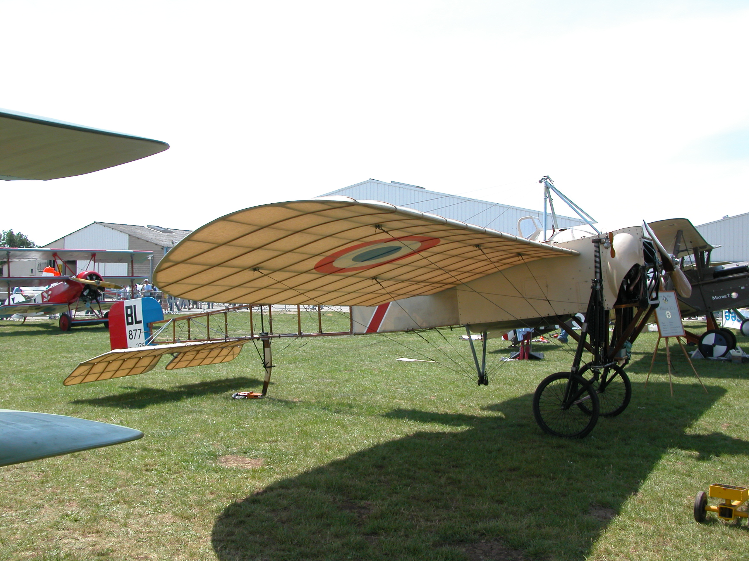 La Ferté-Alais air show, may 29 and 30 2004 at the Cerny aerodrome at La Ferté-Alais in France.